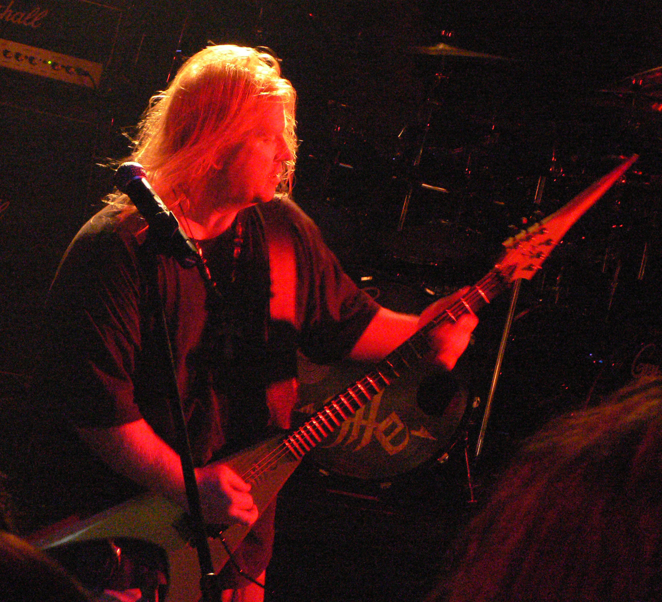 Nile is a death metal band from South Carolina that sings almost exclusively about ancient Egypt. This show was an off date gig from the Ozzfest tour. This shot was taken at Jaxx nightclub in Springfield, Virginia (Washington DC area) on 27 August 2007. This is Karl Sanders playing his custom KxK Warrior V guitar.